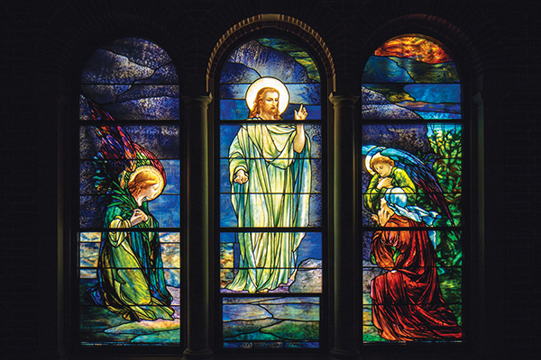 Resurrection, 20th century, stained glass, by Tiffany and Company, Commissioned by Mrs. Josephine Louise Newcomb in memory of her daughter, Harriott Sophie Newcomb